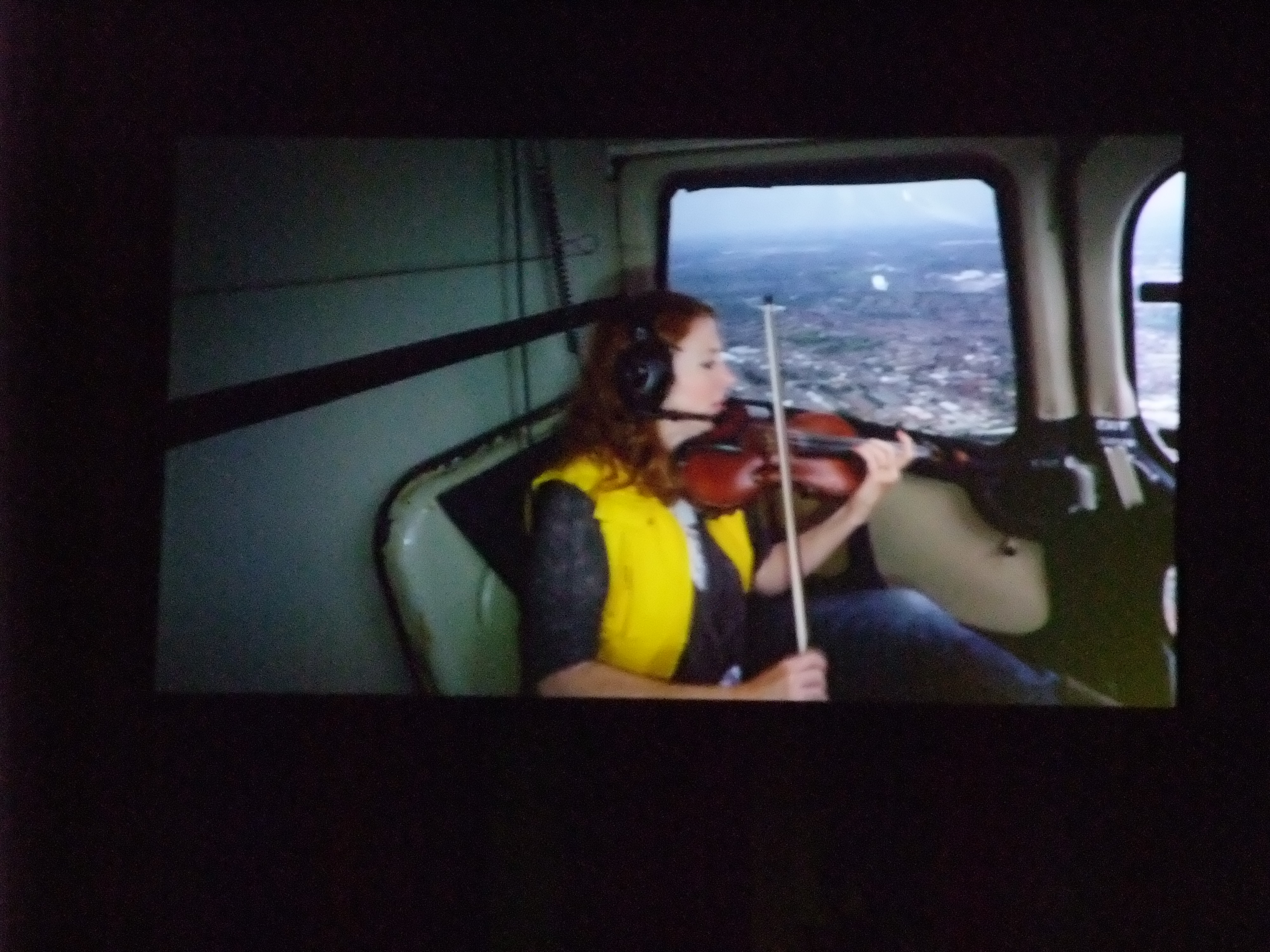 scene 3, Helicopter String Quartet, from Karlheinz Stockhausen's opera Mittwoch aus Licht. Birmingham Opera production, Argyle Works, Digbeth, Birmingham, 23 August 2012. Jennymay Logan, second violin, Elysian Quartet (projected on a video screen). Photograph by Jerome Kohl.